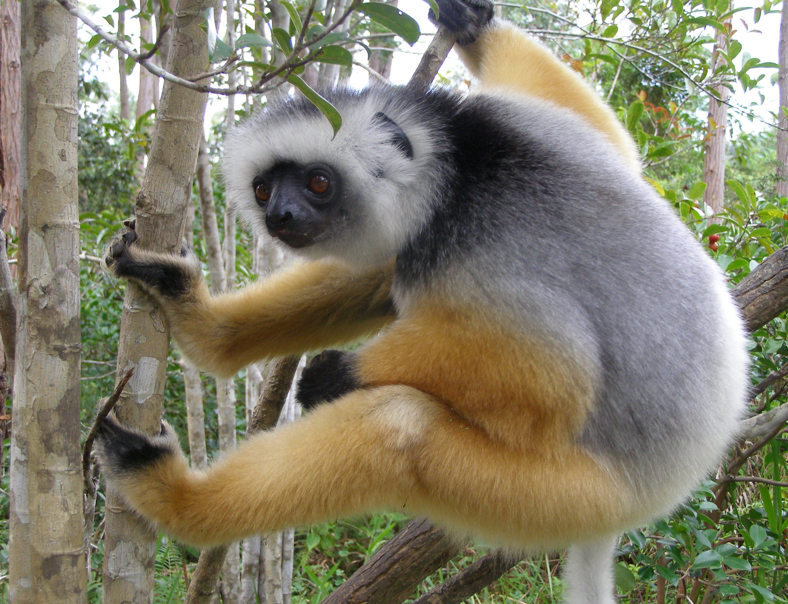 Diademed Sifaka (Propithecus diadema) at Mantadia National Park, Madagascar.